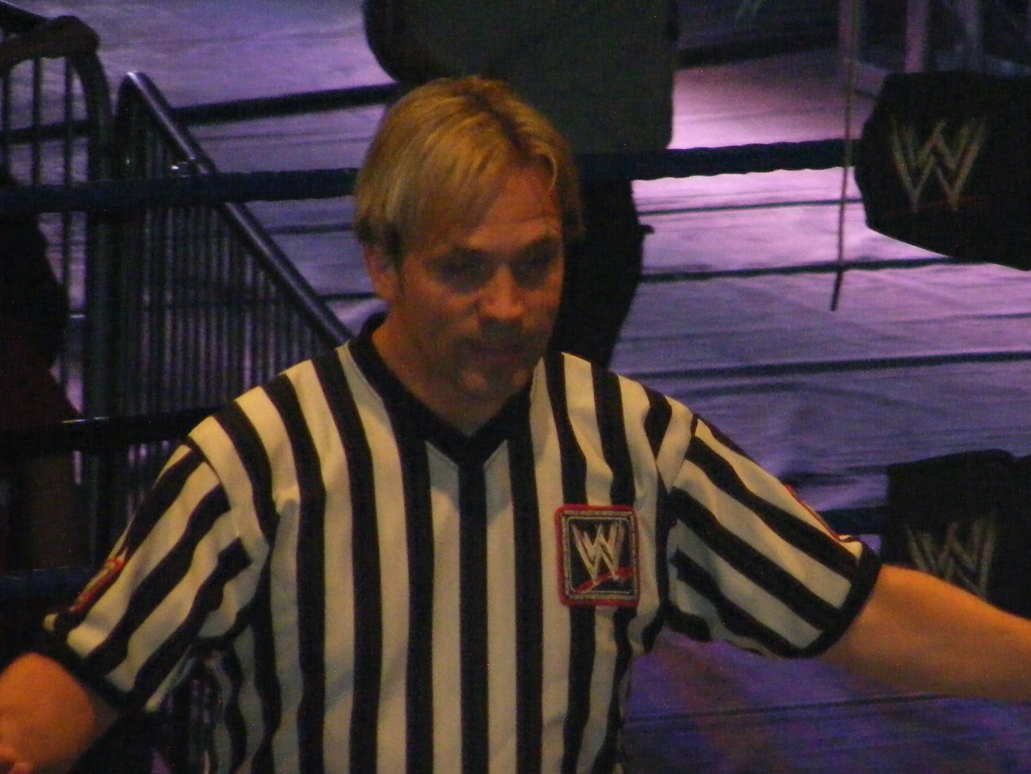 A cropped version of File:Primo Colón and Charles Robinson.jpg to get a better view of professional wrestling referee Charles Robinson. The original was taken at a World Wrestling Entertainment live event on February 28, 2009.